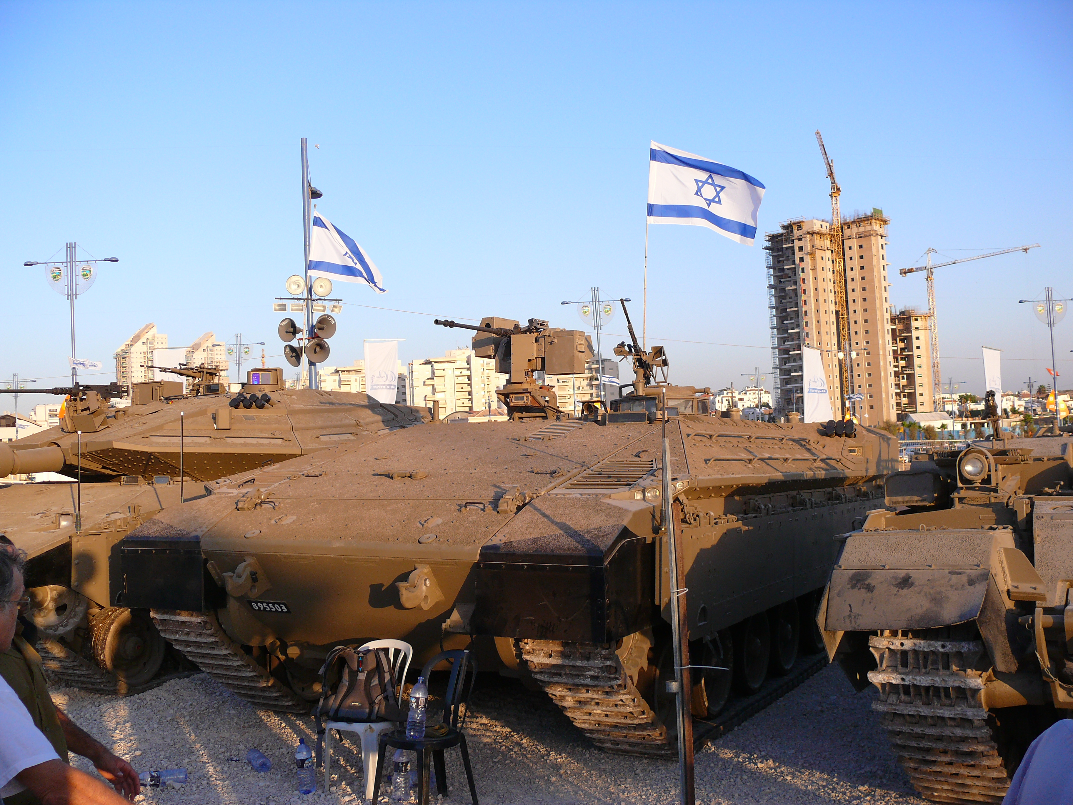 IDF Nammer APC